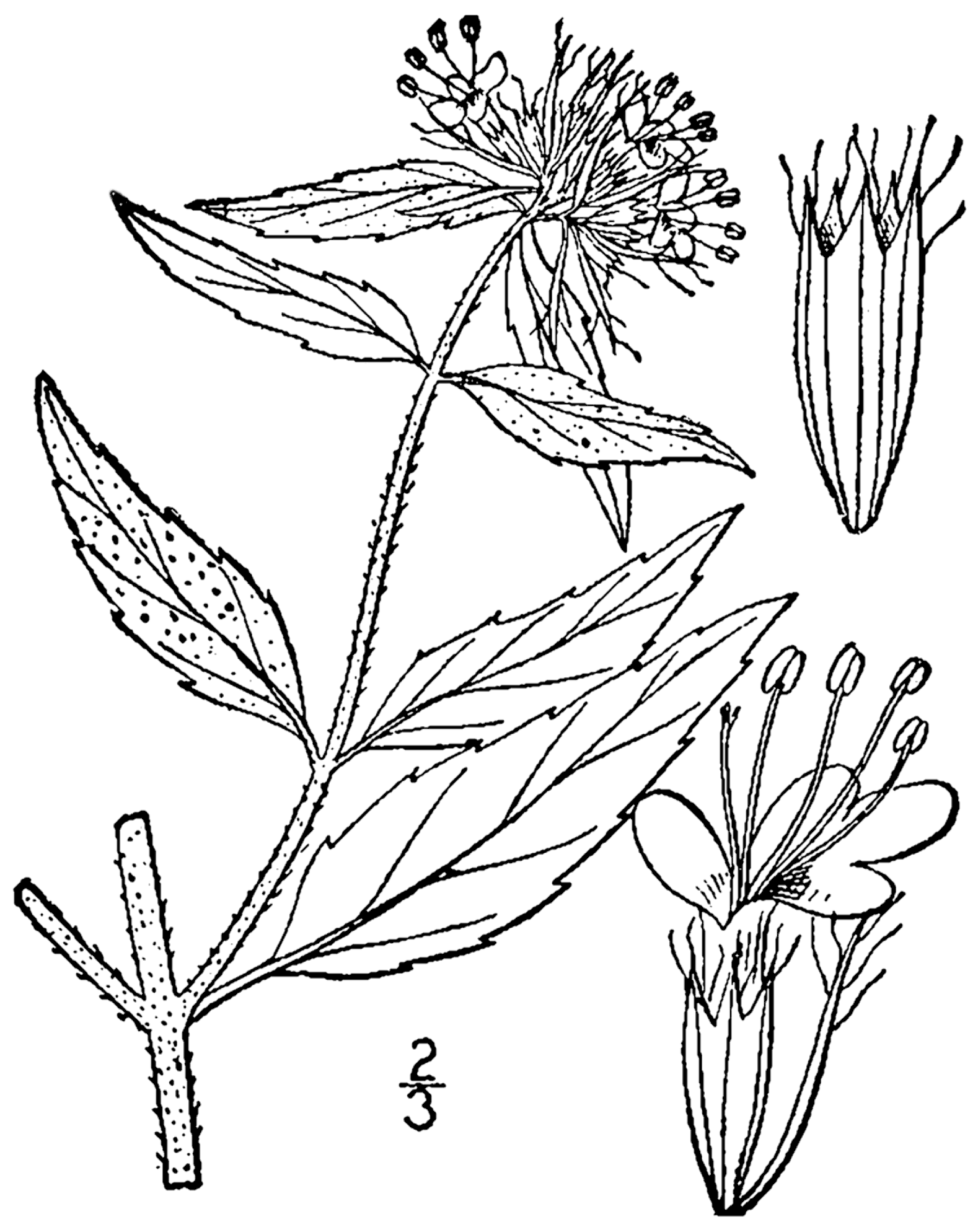 Pycnanthemum clinopodioides Torr. & A. Gray - basil mountainmint